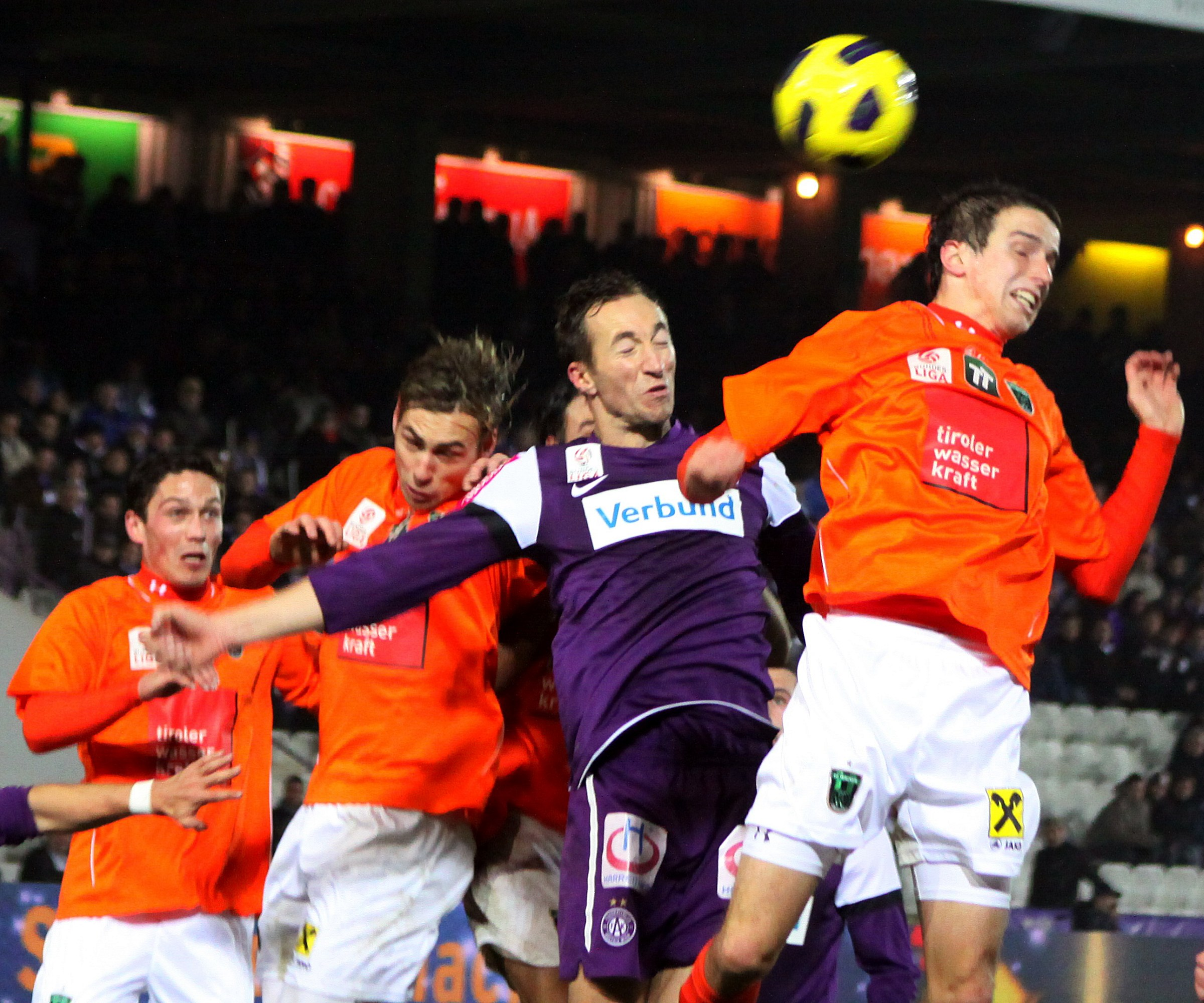 2010–11 Austrian Cup - FK Austria Wien vs FC Wacker Innsbruck